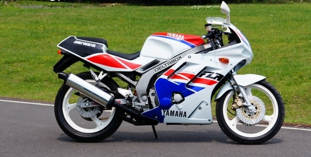 FZR-150